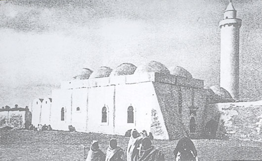 Abd es Salam El Asmar Zawya in Zliten.